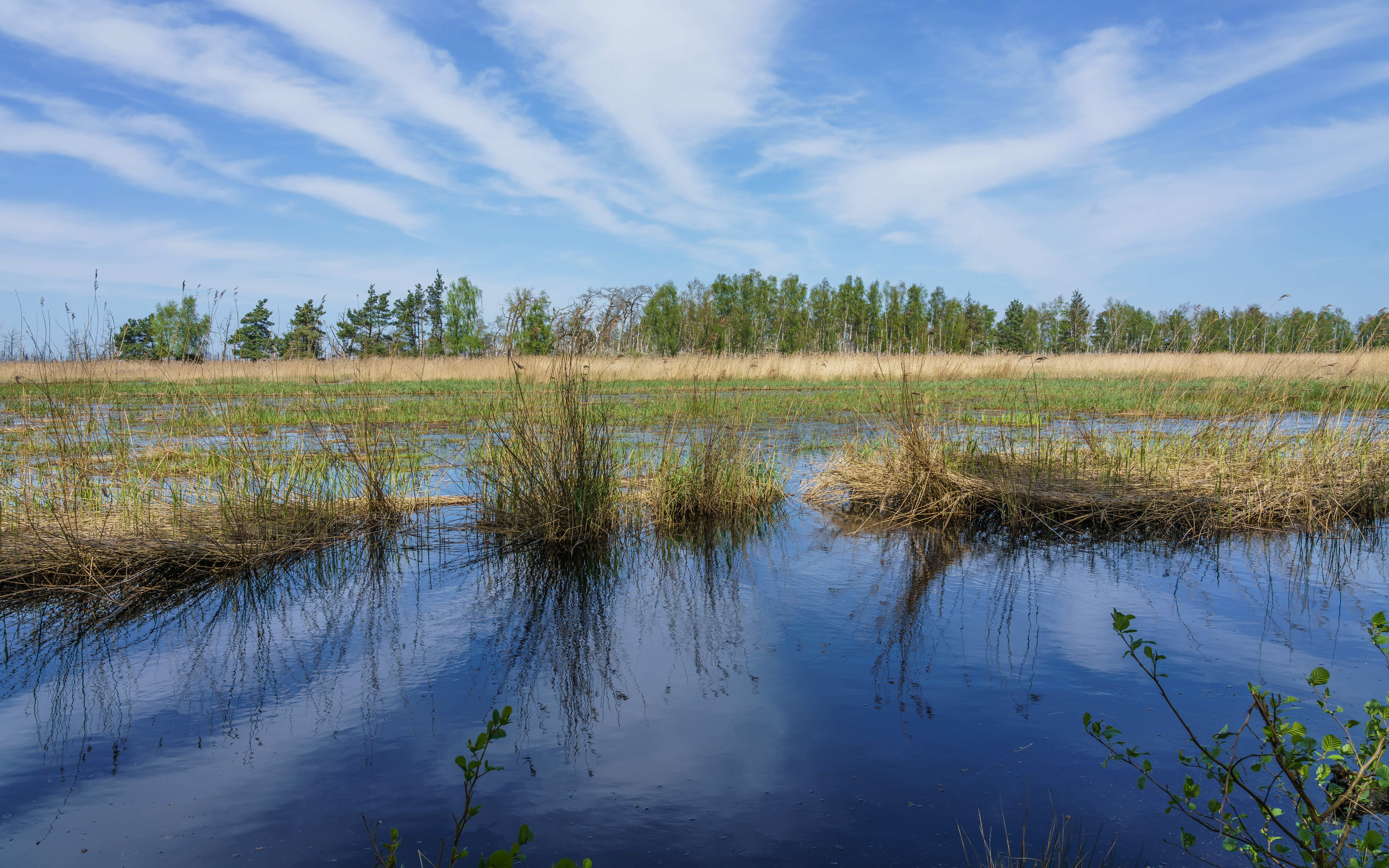 Protected area near Markgrafenheide in Rostock, Germany